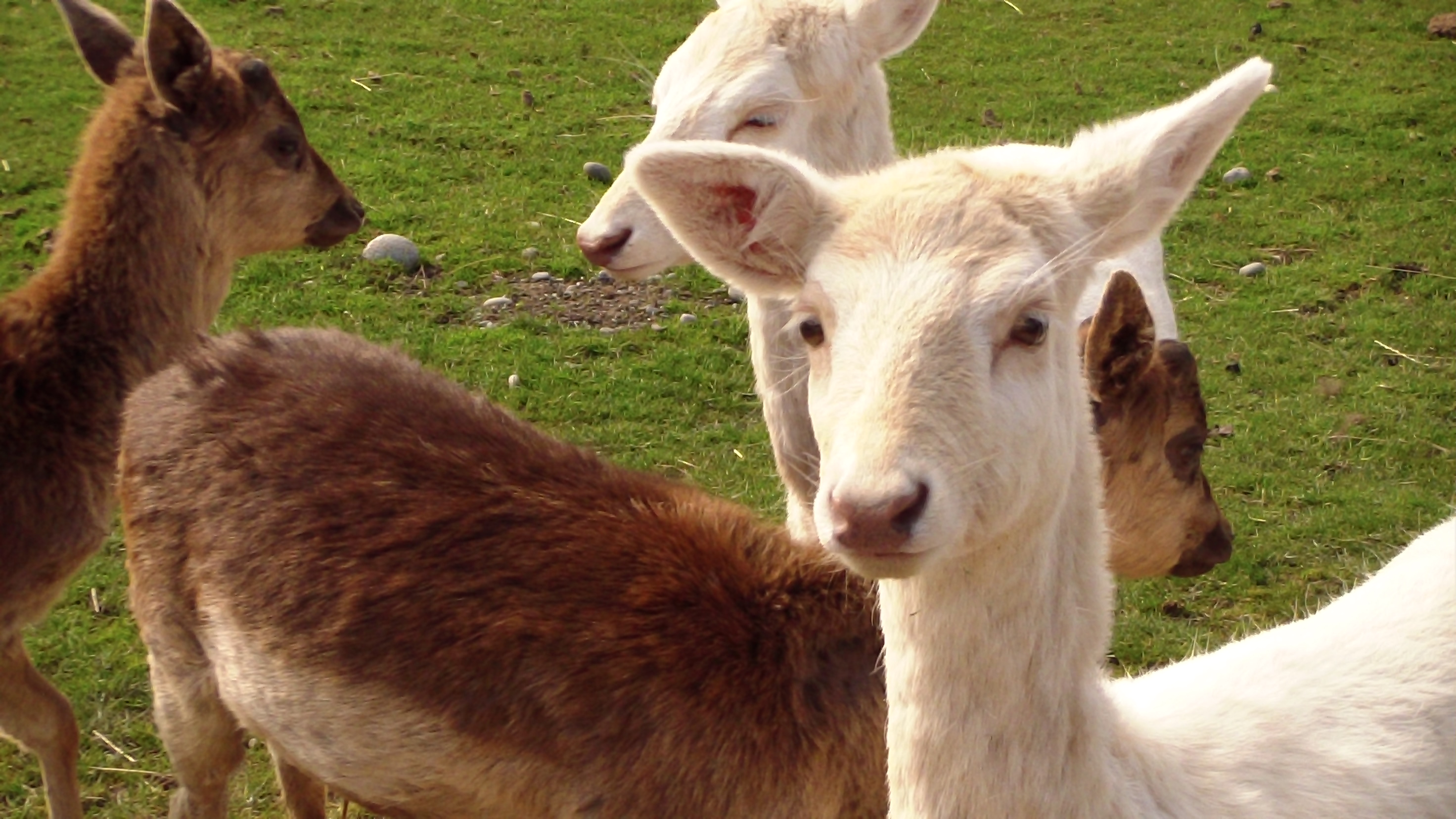 These are White Fallow Deer, they originated from central areas of Europe.